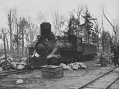 [w:[Lumberjack Steam Train lumber camp locomotive. Forest County, Wisconsin. Note special smokestack to catch sparks. The locomotive is part of the Camp Five Museum.